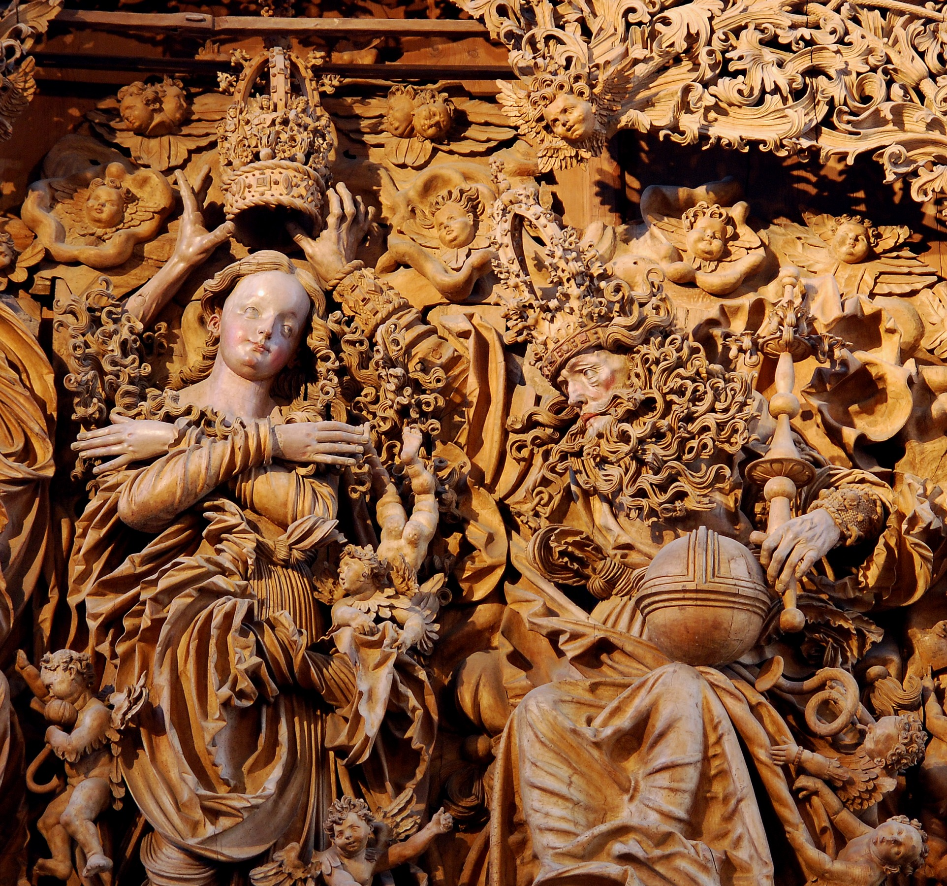 Breisach Minster high altar detail (Mary's coronation and God the Father).